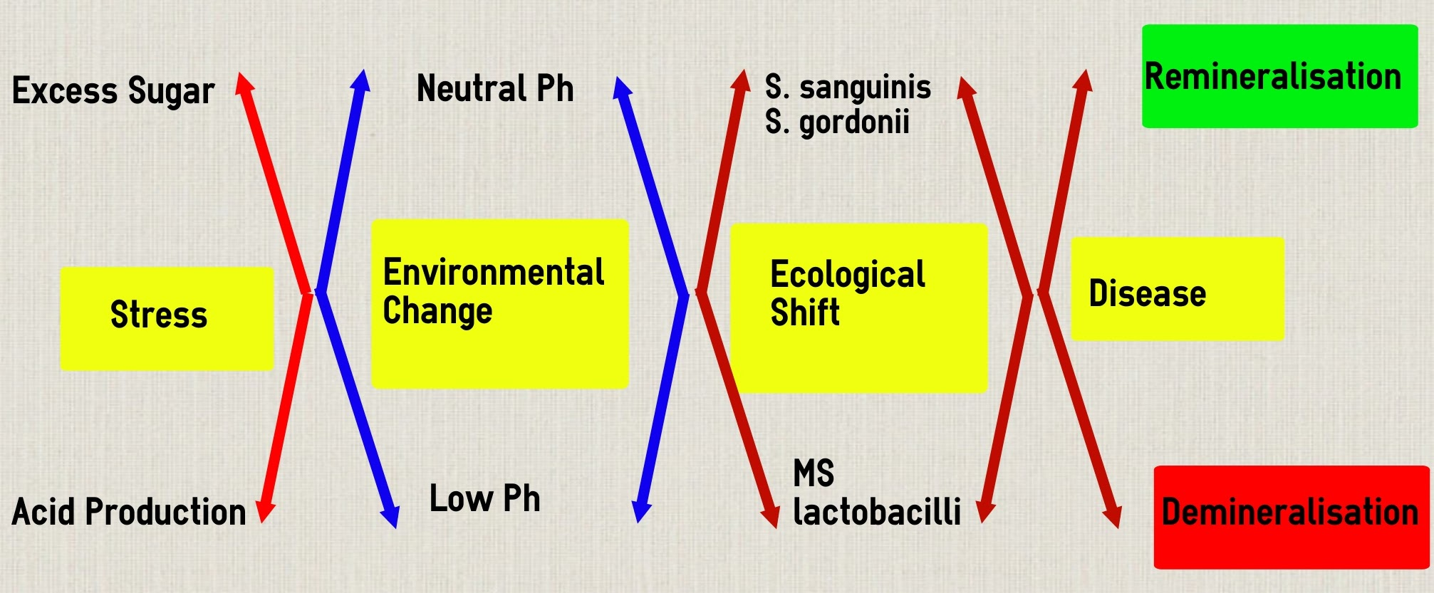 The ecological plaque hypothesis and the aetiology of dental caries. The diagram shows a dynamic relationship whereby an environmental change in the biofilm (e.g. low pH) drives a shift in the balance of the resident microflora, thereby shifting the balance towards enamel demineralization. Caries could be controlled by inhibiting the putative pathogens, e.g. mutans streptococci (MS) or other acid producers, by interfering with the environmental changes driving the ecological shift, e.g. by reducing the acid challenge by the use of sugar control, saliva stimulation and/or biofilm removal. Adapted from Marsh,P.D.(1994).Microbialecology of dental plaque and its significance in health and disease. Adv.Dent.Res. 8, 263–271.